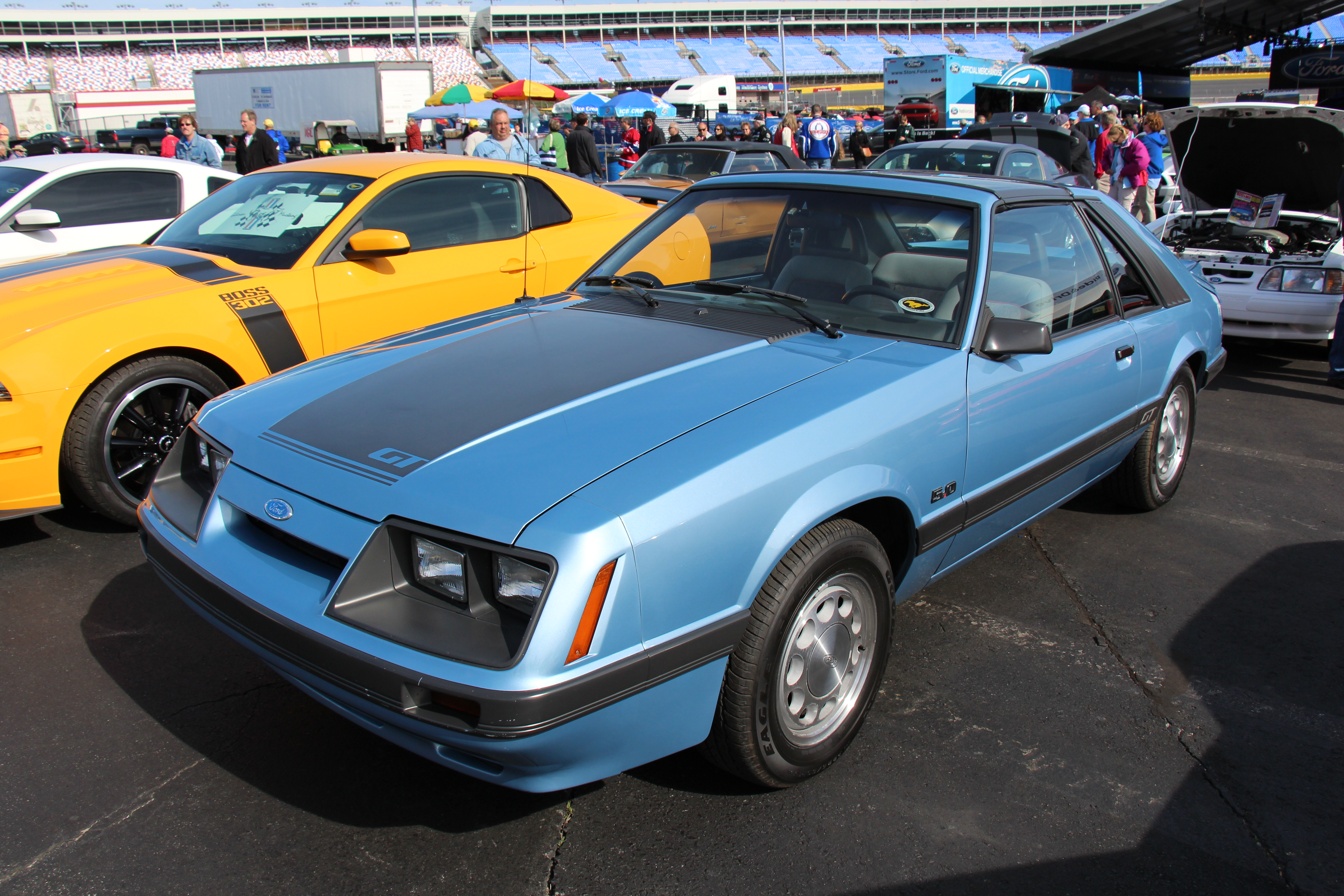 Light Regatta Blue. The 3rd generation Fox body Mustang was made from 1979-1993, a minor update to front and rear in 1983, the eggcrate grille gone, and again in 1985, a more aero, no grille look, then a more substantial update in 1987 saw the grille and quad headlights replaced by modern single headlights. In 1985 the Mustang was available again in coupe, hatchback and convertible. The L and Turbo GT were dropped leaving the LX, GT and SVO. The 5.0 in the GT got a 4 barrel carby and revised cylinder heads, power was up to 210hp Photographed at the 50th Anniversary of the Mustang celebrations at the Charlotte Motor Speedway, April 2014